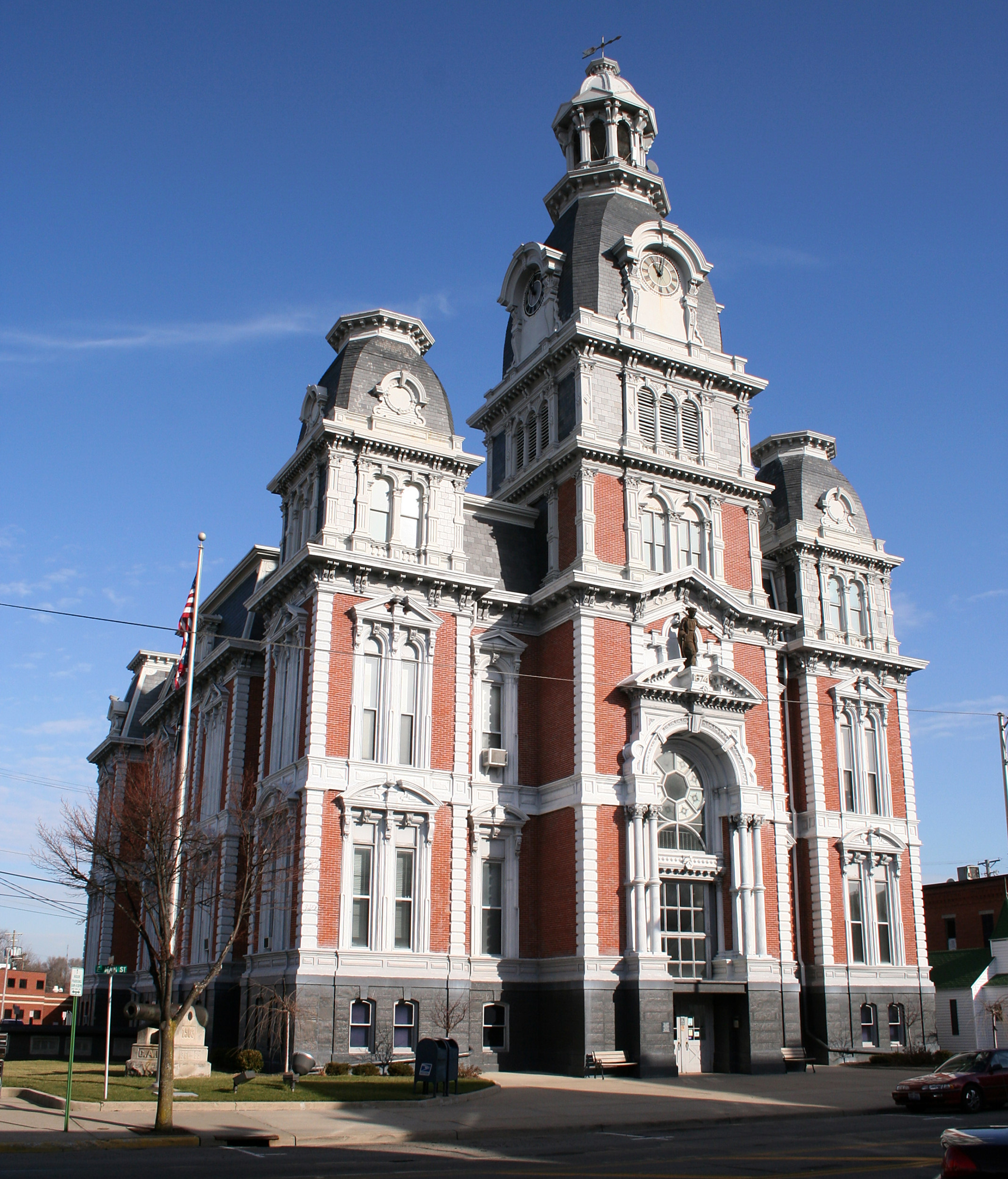 Van Wert County courthouse in Van Wert, Ohio, completed in 1874. Thomas J. Tolan & Son, Architects